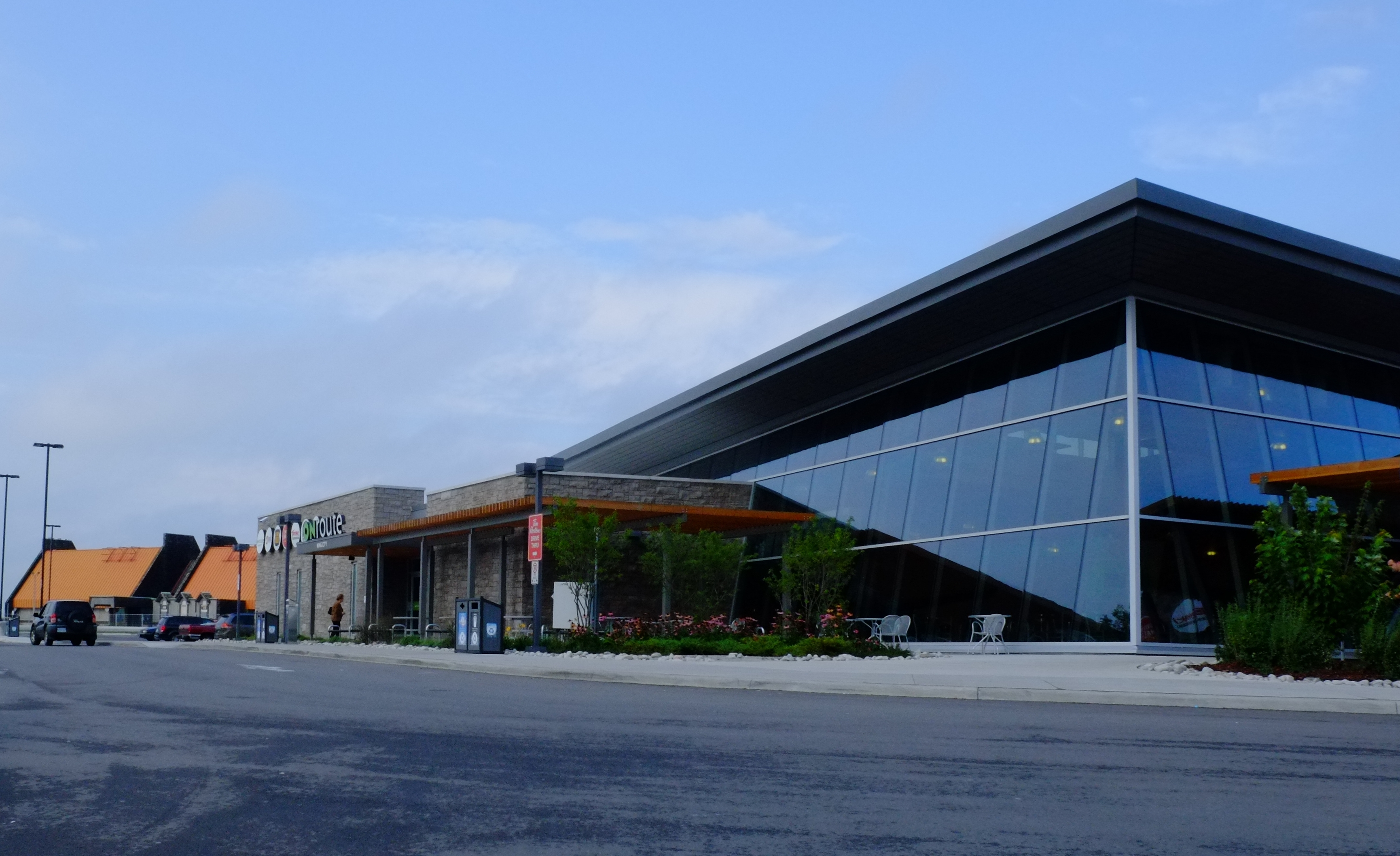 ONroute Rest Area, Highway 400, Ontario Our rest areas in BC are tiny and old. In Ontario, they're like theme parks for cars. This is the King City ONroute on the northbound Highway 400; it is located just south of the King-Vaughan townline.